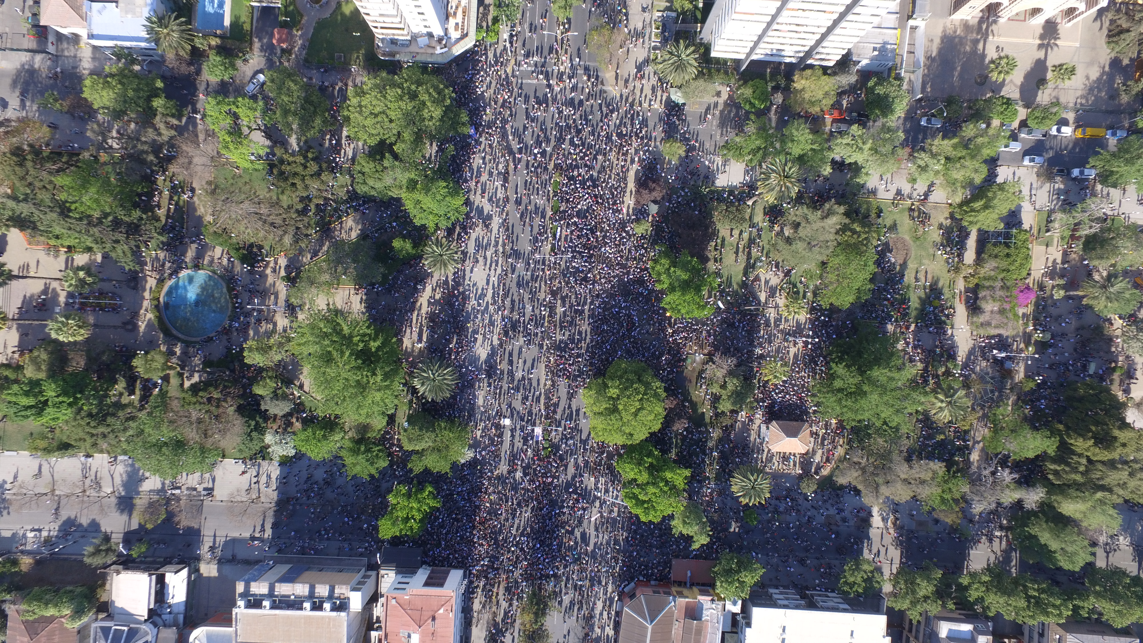 Plaza Ñuñoa, Santiago de Chile. Protesta pacífica en Octubre de 2019. Altura de Av. Irarrazaval con Jorge Washington.